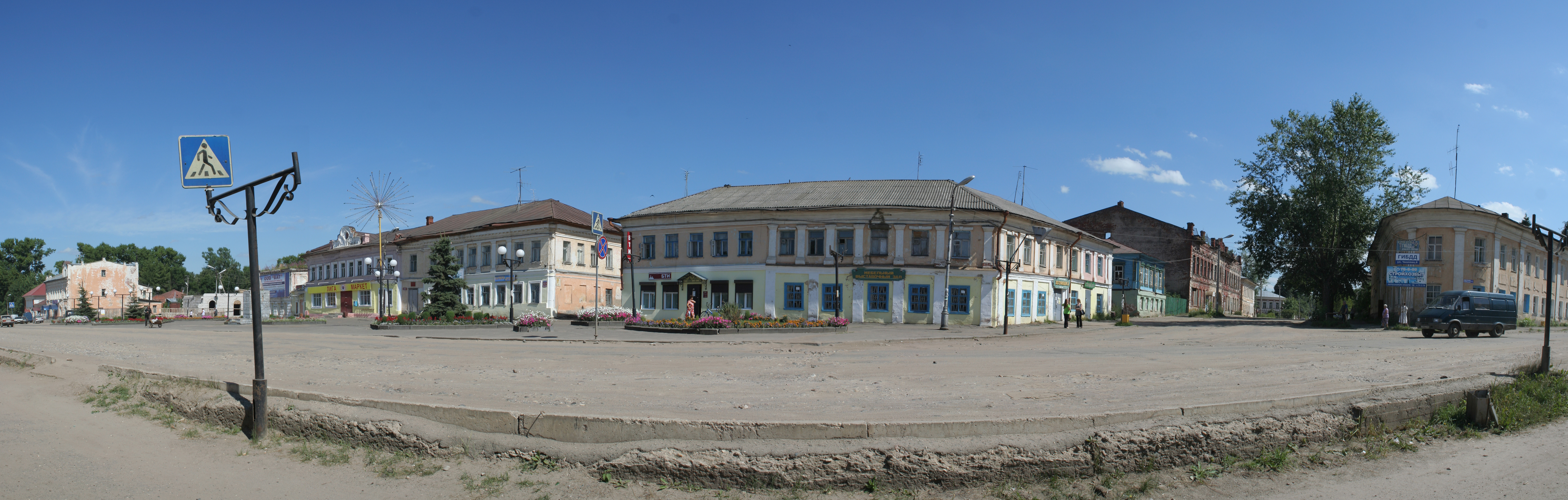 Old town of Nerekhta, Kostroma Oblast, Russia. A panoramic image. This image is stitched from eight single shots using PTGui.